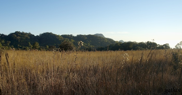 Farpak grassland in Blue Mountain National Park, Mizoram.